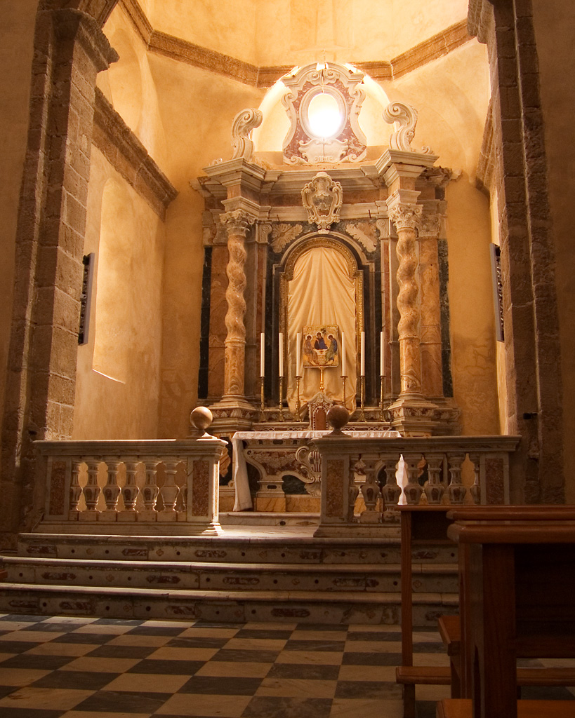 Soft light inside the Algehro Cathedral caught my eye. I used the pew to rest the camera on and took a few self timer shots